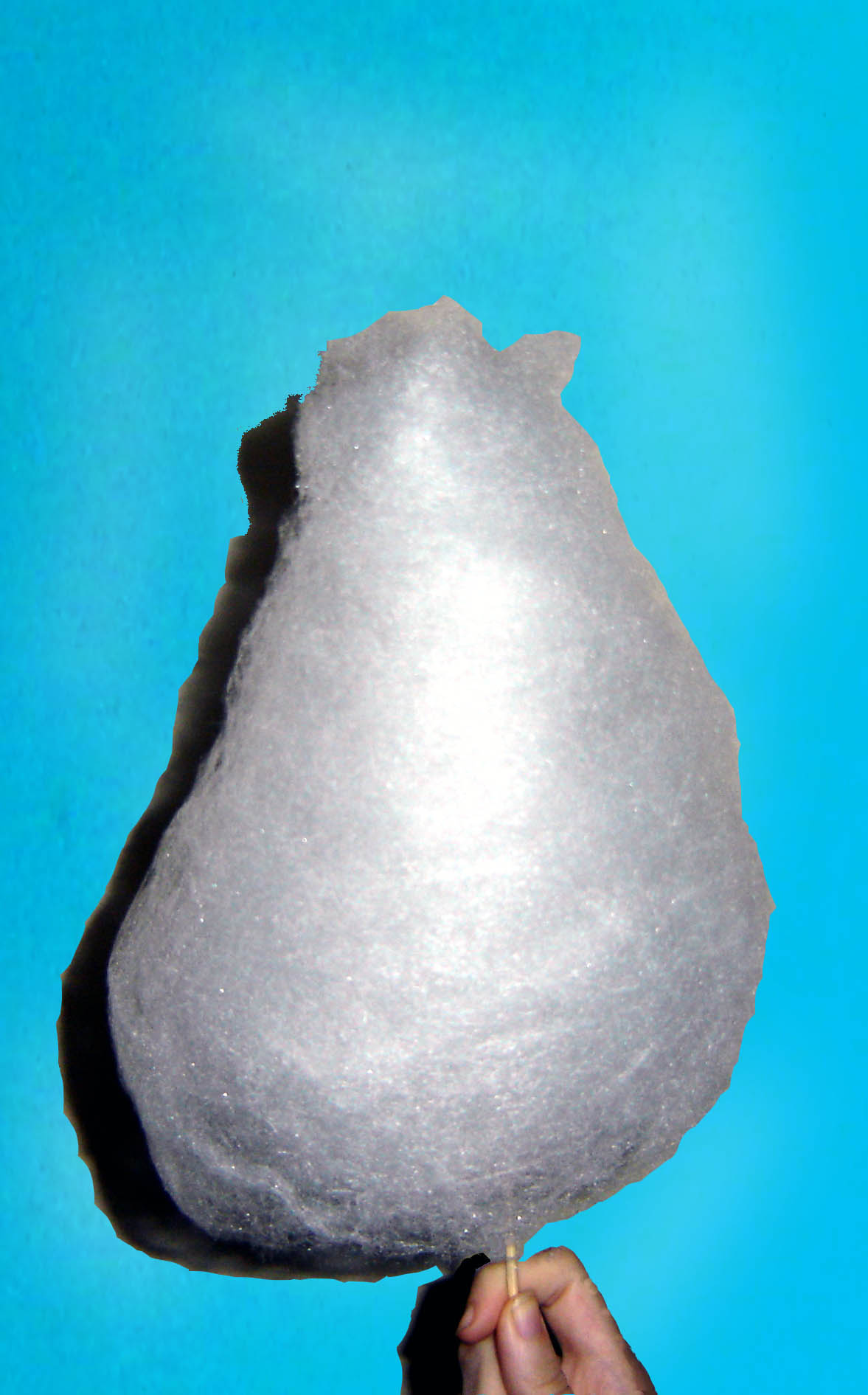 Description: cotton candy picture, taken by user Carioca License: GFDL